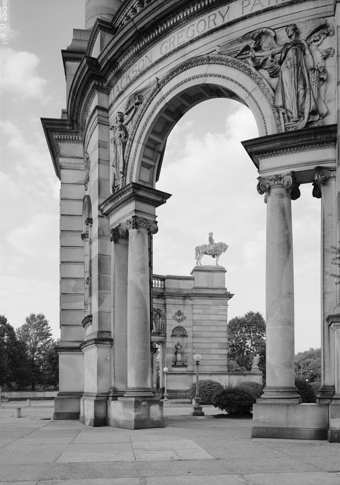 Smith Memorial Arch, South Concourse & Lansdowne Drive, West Fairmount Park, Philadelphia, Pennsylvania (1898-1912), James H. Windrim, architect. Looking north through south archway.